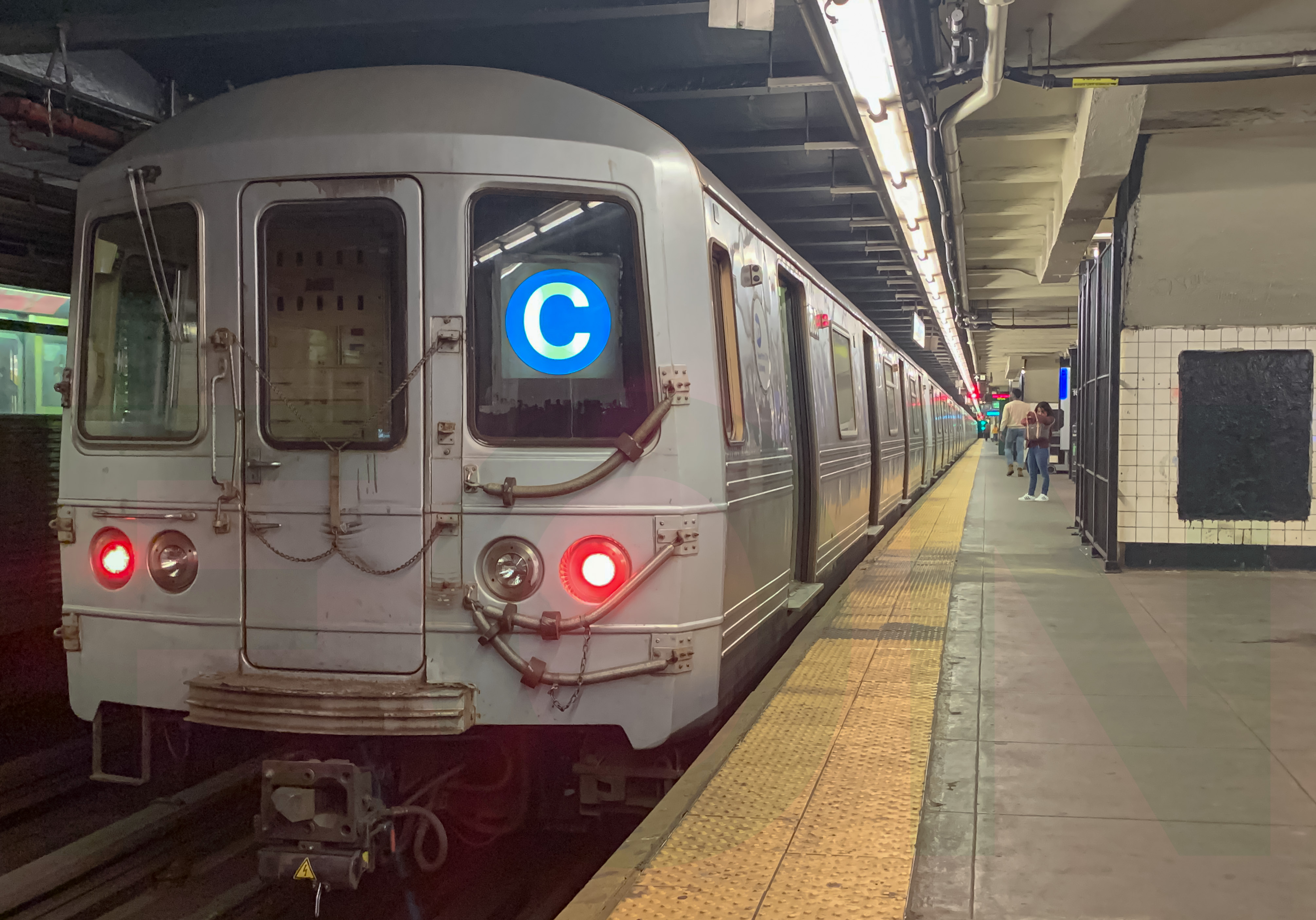 A rare sighting lately of an R46 full 8 car set on the (C) line, in September, 2019.